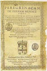 "Peregrinação" (or "Pilgrimage") the most famous work of Fernão Mendes Pinto.